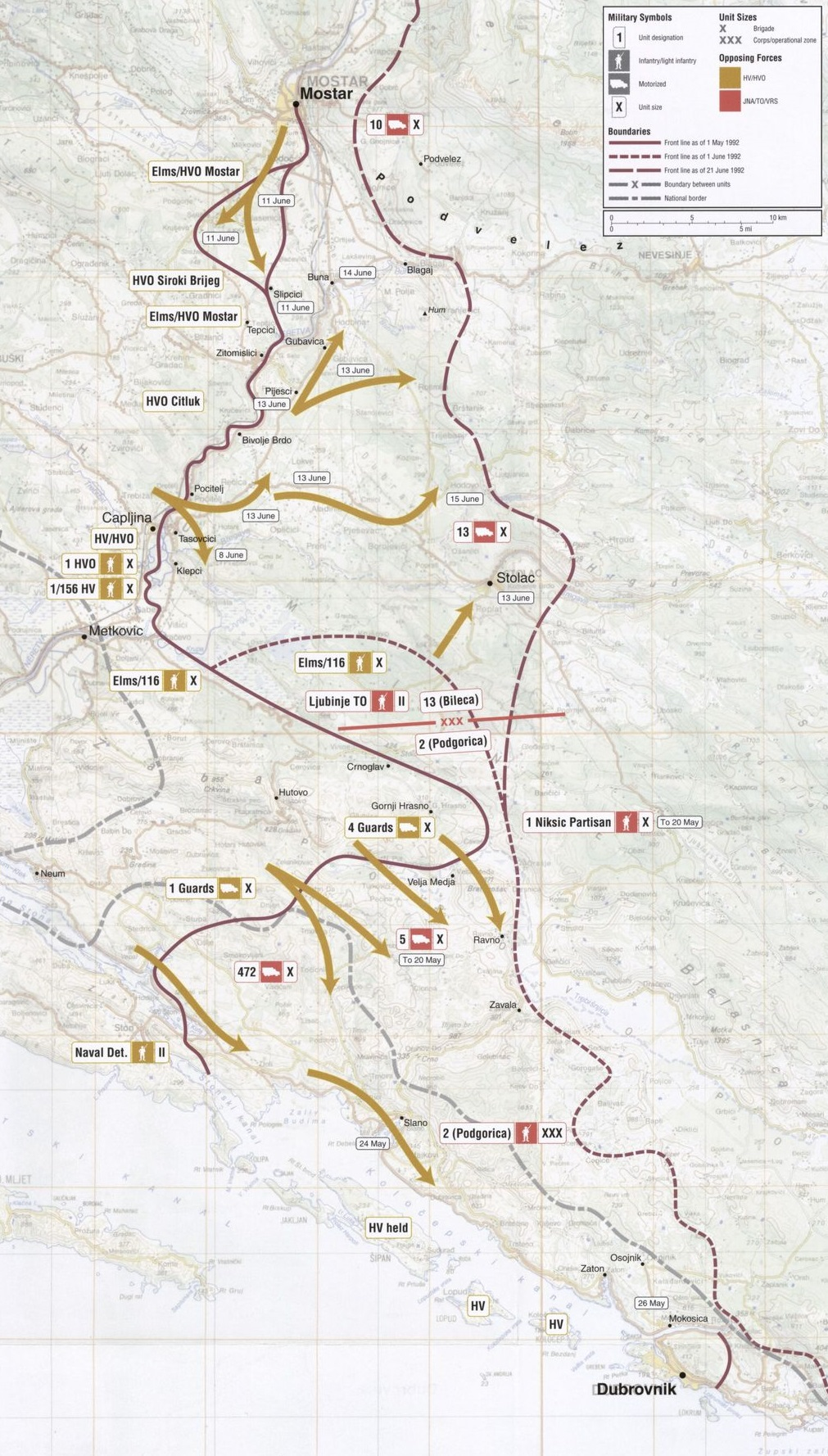 Map of Croatian Army and Croatian Defence Council offensive Operation Jackal (Mostar, Čapljina and Stolac, Bosnia and Herzegovina; June 1992). Balkan Battlegrounds Map 16 (cropped from original to show a narrowed down area of the offensive, moved map key to appear in the cropped area)